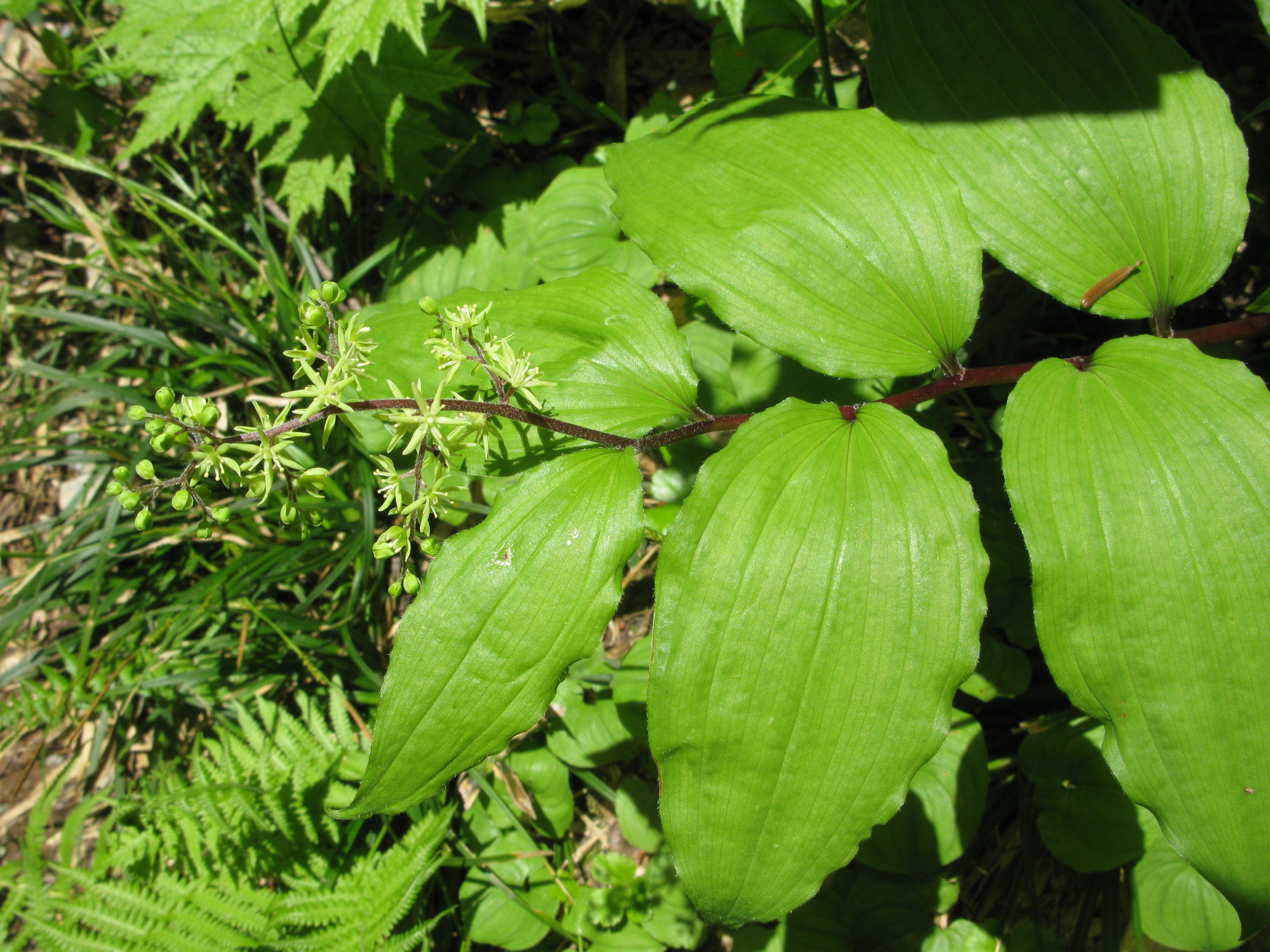 Maianthemum hondoense, Mount Shibutsu, Gunma pref., Japan